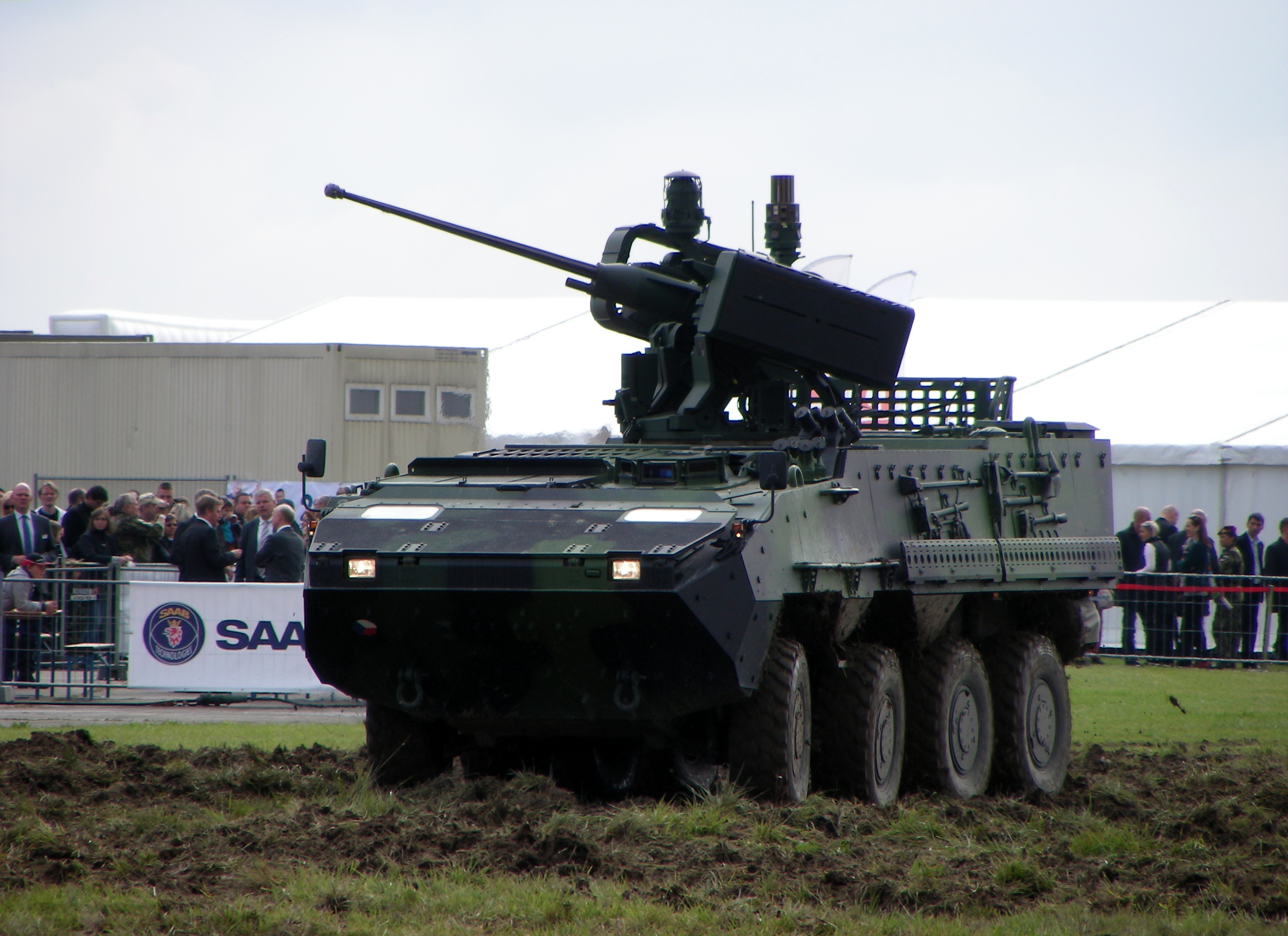 Czech wheeled infantry fighting vehicle Pandur II at NATO Days 2013 in Ostrava.